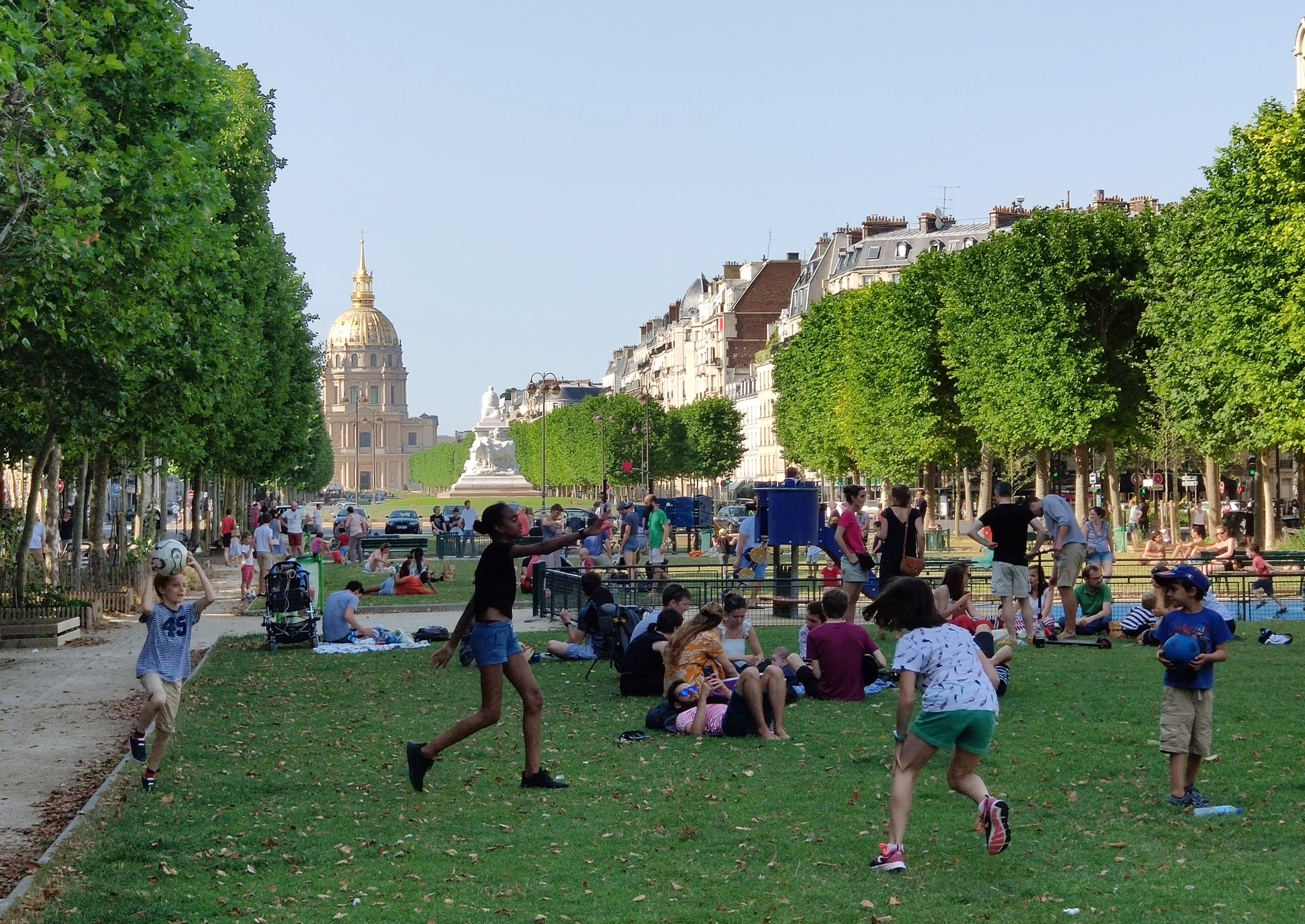 On foreground, four boys are playing football on esplanade Jacques-Chaban-Delmas in summer 2019. Many other people are sitting on the grass. On the background, Les Invalides.